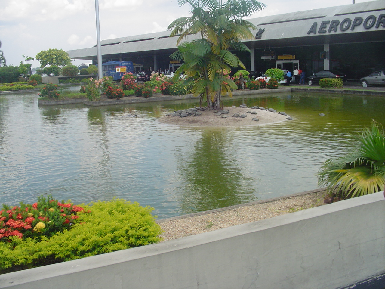 Picture of the International Airport of Manaus, Brazil 2.